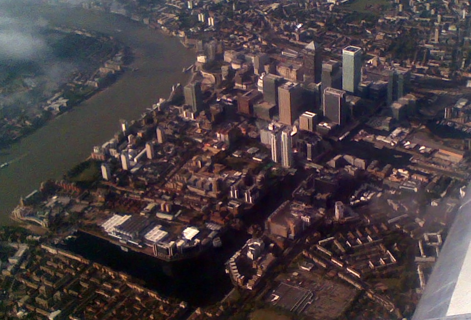 Canary Wharf, London. Aerial view.